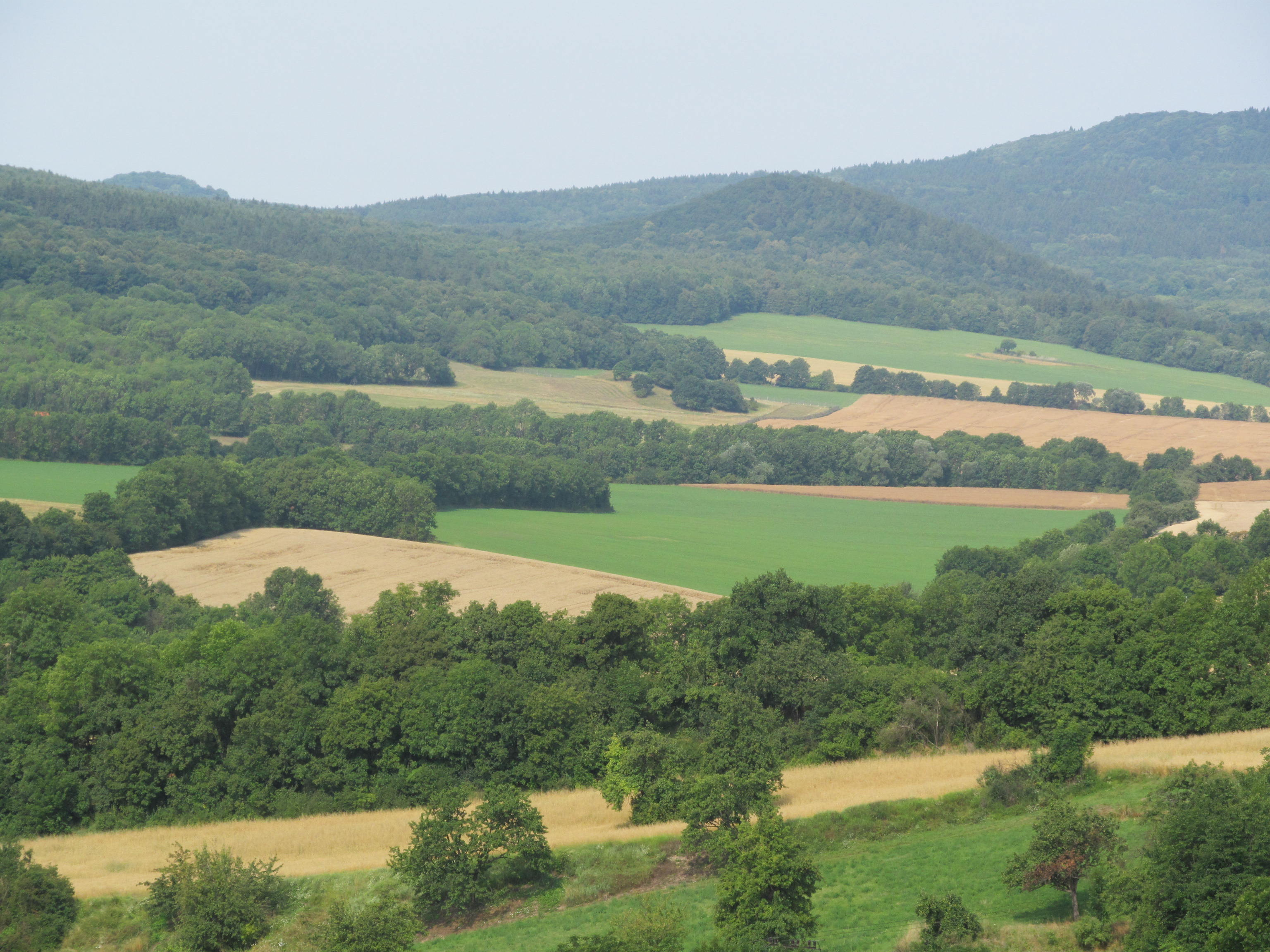 Vlastislav fort hill from Skalka castle